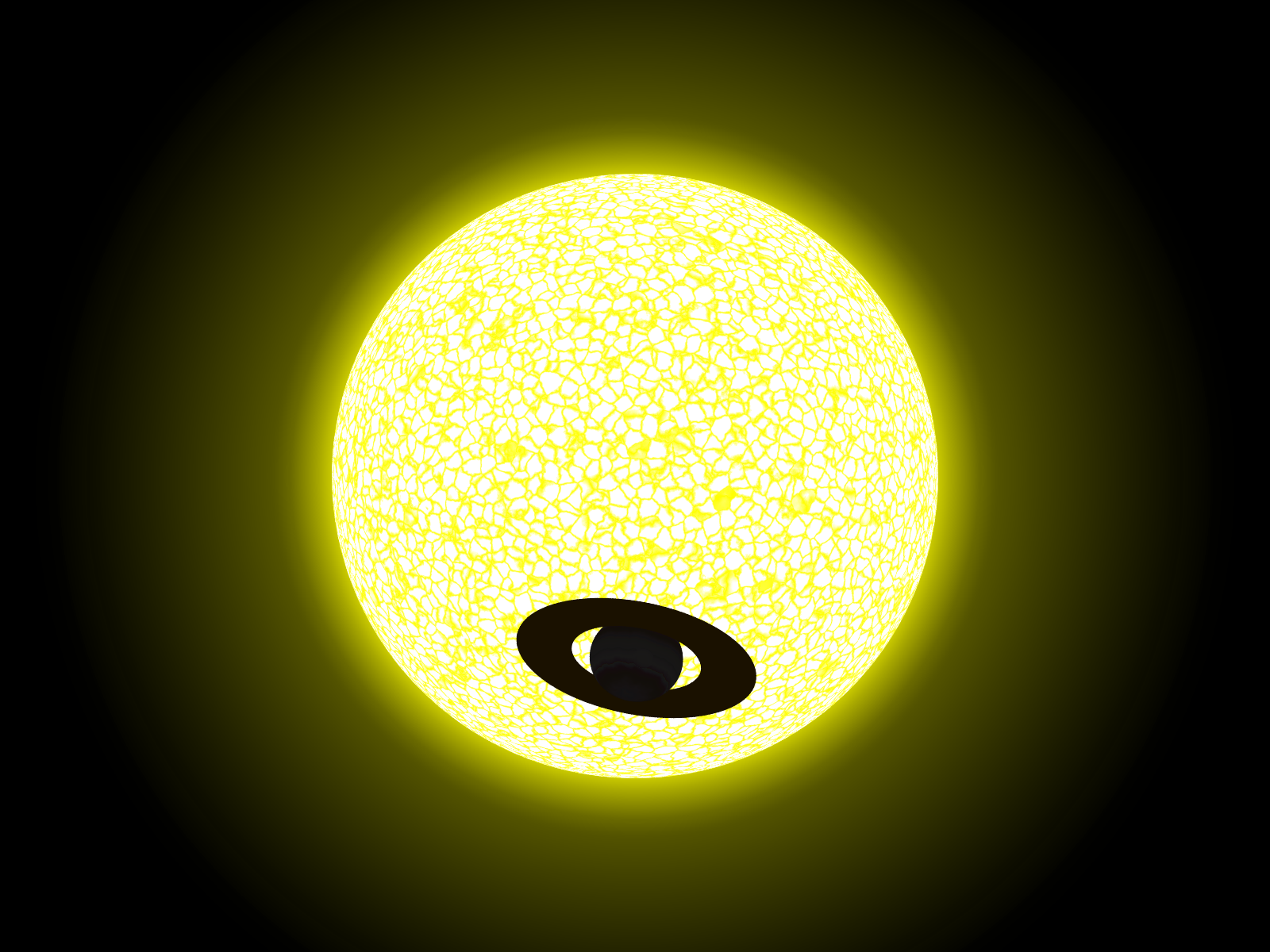 Exoplanet has rings. It eclipses icantral star of its.